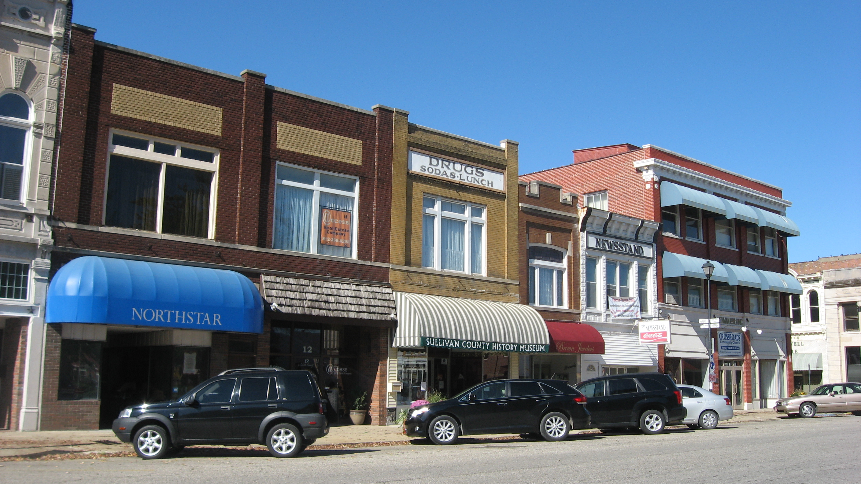 Buildings on the western side of the first block of S. Court Street in Sullivan, Indiana, United States.